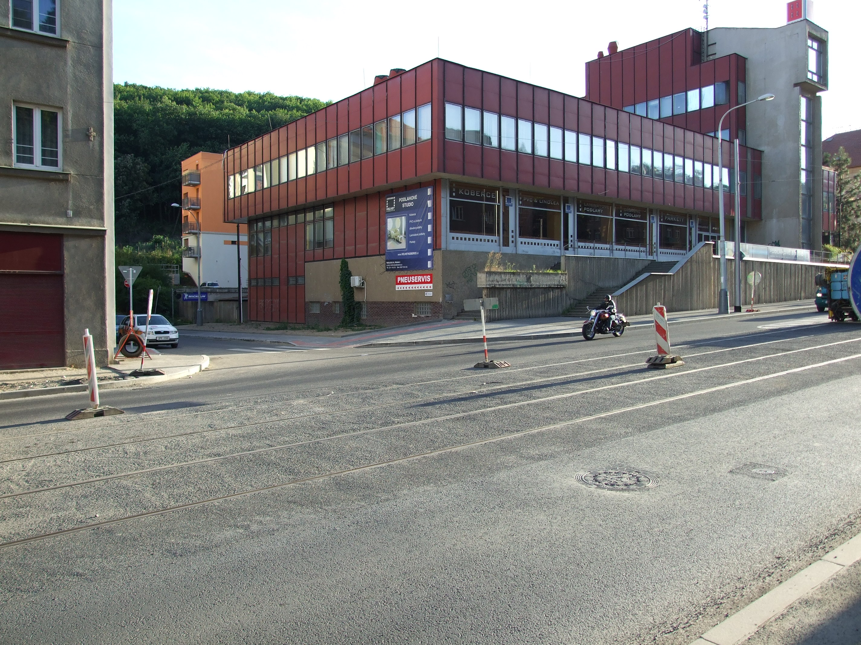 Reconstruction of Radlická street, new tram track. Prague, CZhelp